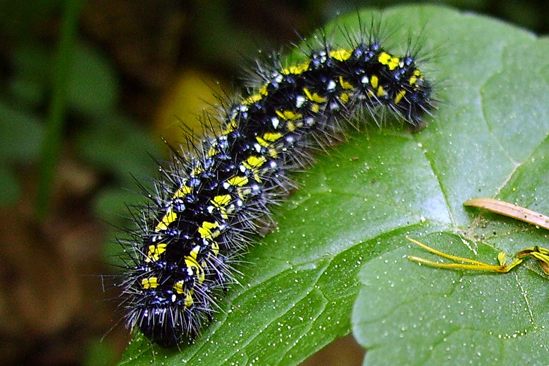 Scarlet tiger moth (Callimorpha dominula) caterpillar